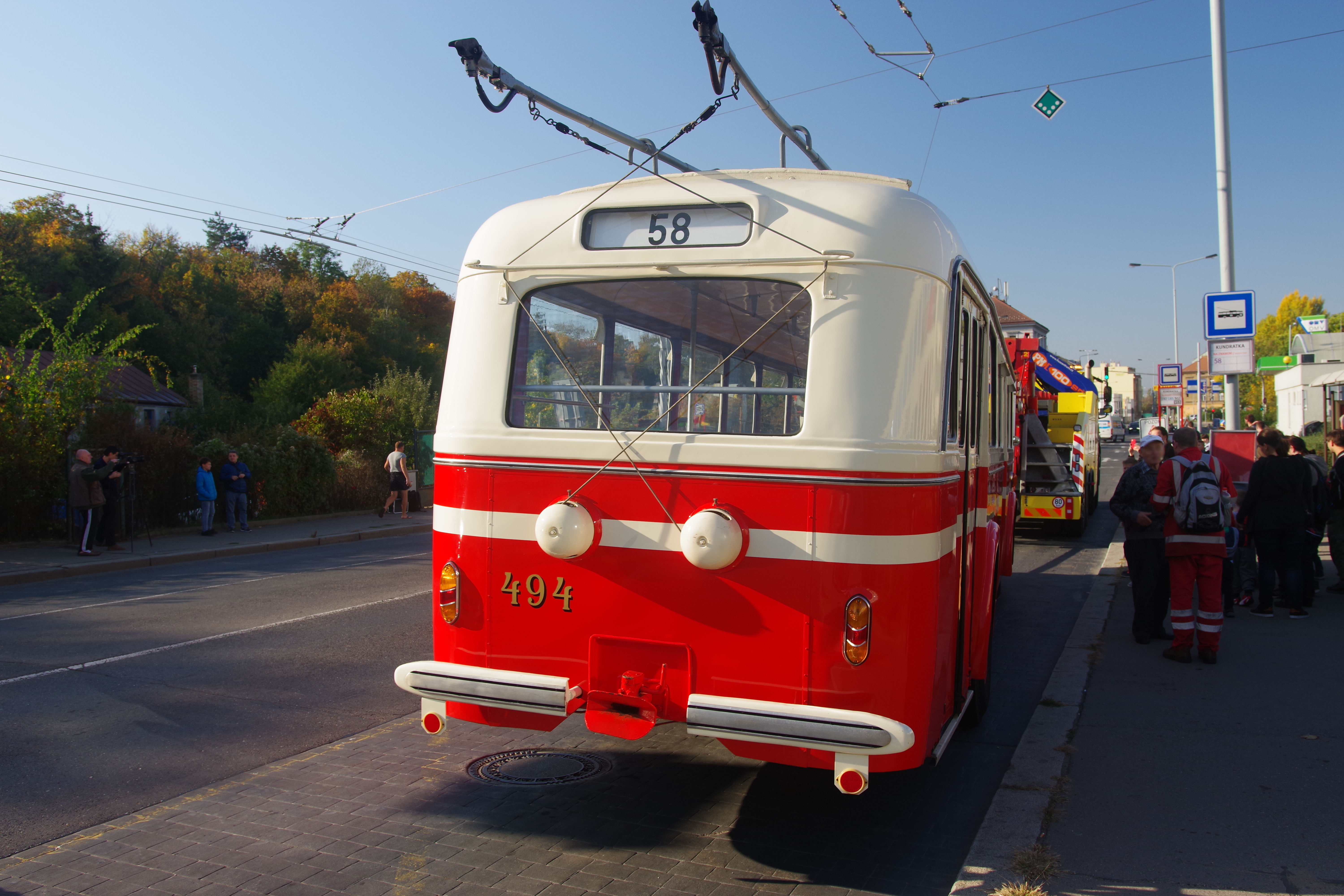 Trolleybus Škoda 8Tr during special rides as part of the one year of modern trolleybus system anniversary in Prague as well as 46 years anniversary of the original system shutdown.